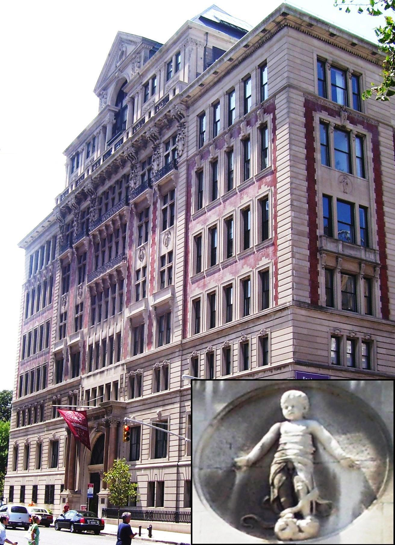 The building at 305 Second Avenue, Manhattan, New York City, now the "Rutherford Place" apartments, was formerly the Lying-in Hospital, built in 1902 to a design by R.H. Robertson. In the inset is a detail from the facade, one of the swaddled babies which decorate the spandrels. Converted to offices and apartments in 1985 by Beyer Blinder Belle. (Source: AIA Guide to NYC (4th ed.))